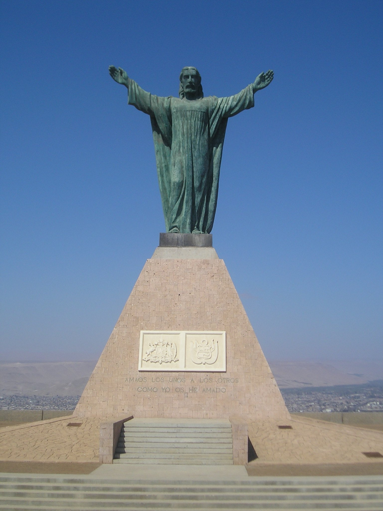 Arica, Chile - a statue of Jesus Christ at El Morro hill (with a Spanish quotation from John, 15:12)